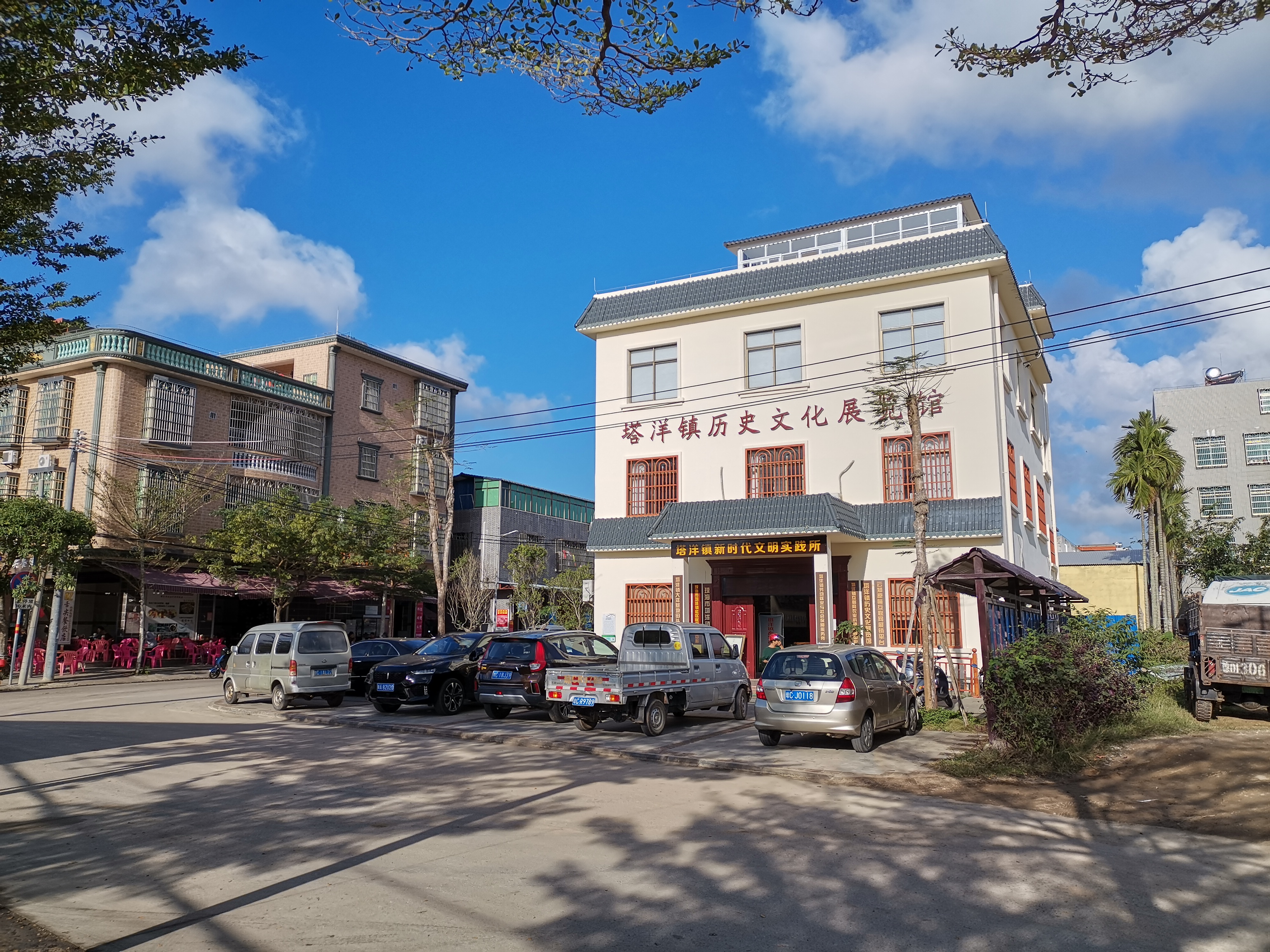 塔洋鎮歷史文化展覽館 塔洋鎮歷史文化展覽館 塔洋鎮歴史文化展覧館 Hopjiaangcin Liksez Veenhua Cianzlamzkuanz Tayang Town History and Culture Exhibition დასახლებ ტაიანის ისტორიის და კულტურის საგამოფენო 탑양진역사문화전람관